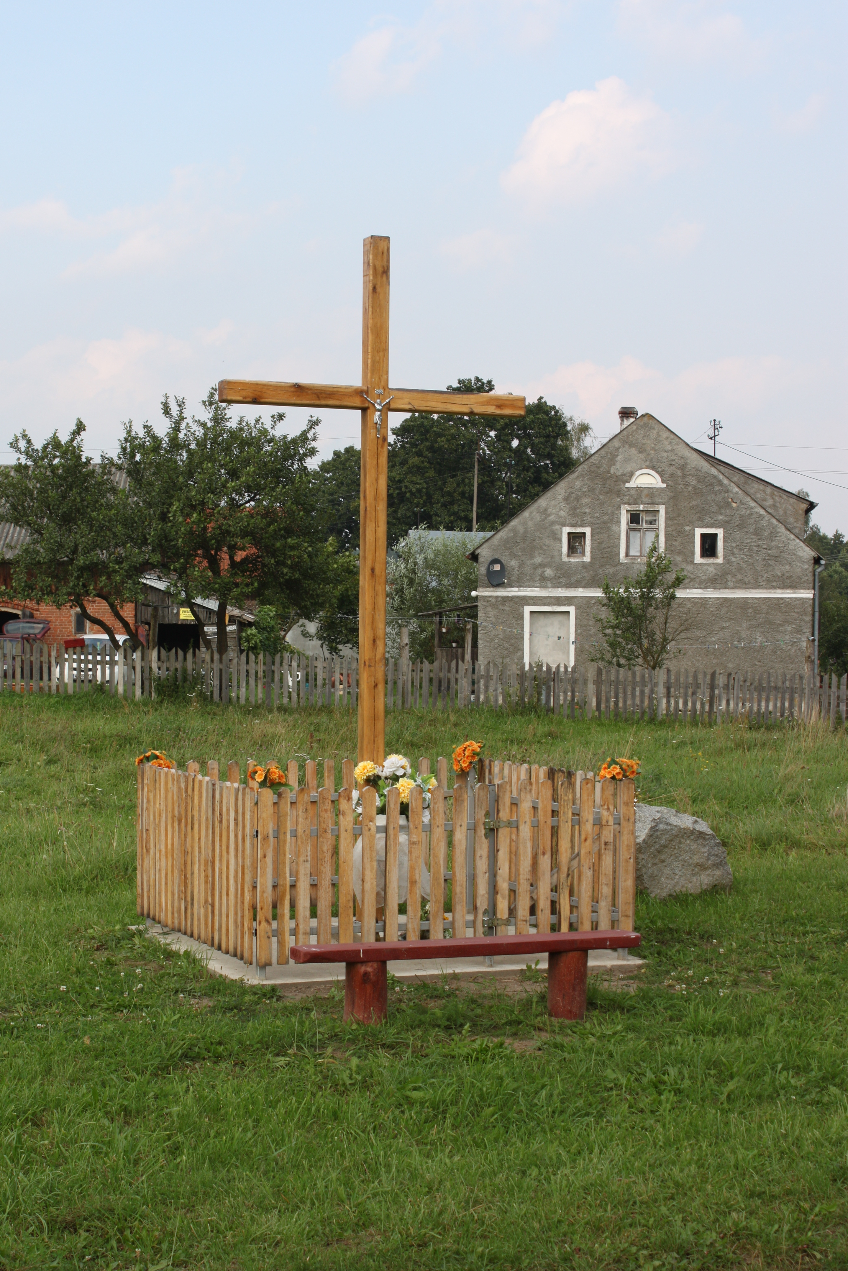 Cross in Jeleniowo.